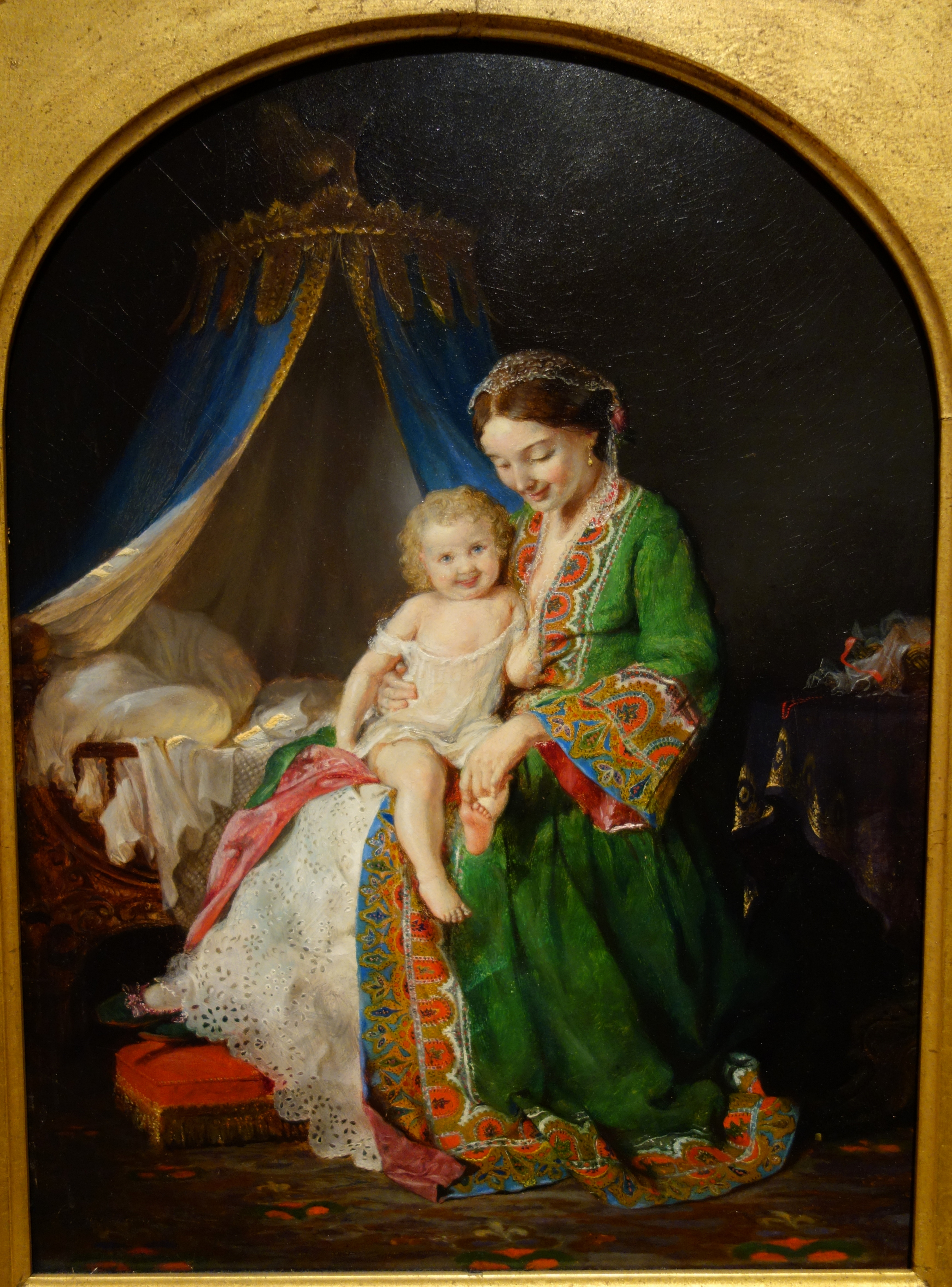 Exhibit in the New Britain Museum of American Art, New Britain, Connecticut, USA. This artwork is in the public domain because the artist died more than 70 years ago. The museum permitted photographs of this exhibit without restriction.